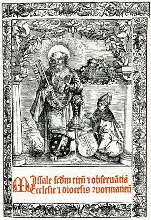 Titelblatt des Wormser Missale von 1522, mit Bischof Reinhard von Rüppurr (+ 1523) und seinem Familienwappen (rechts)